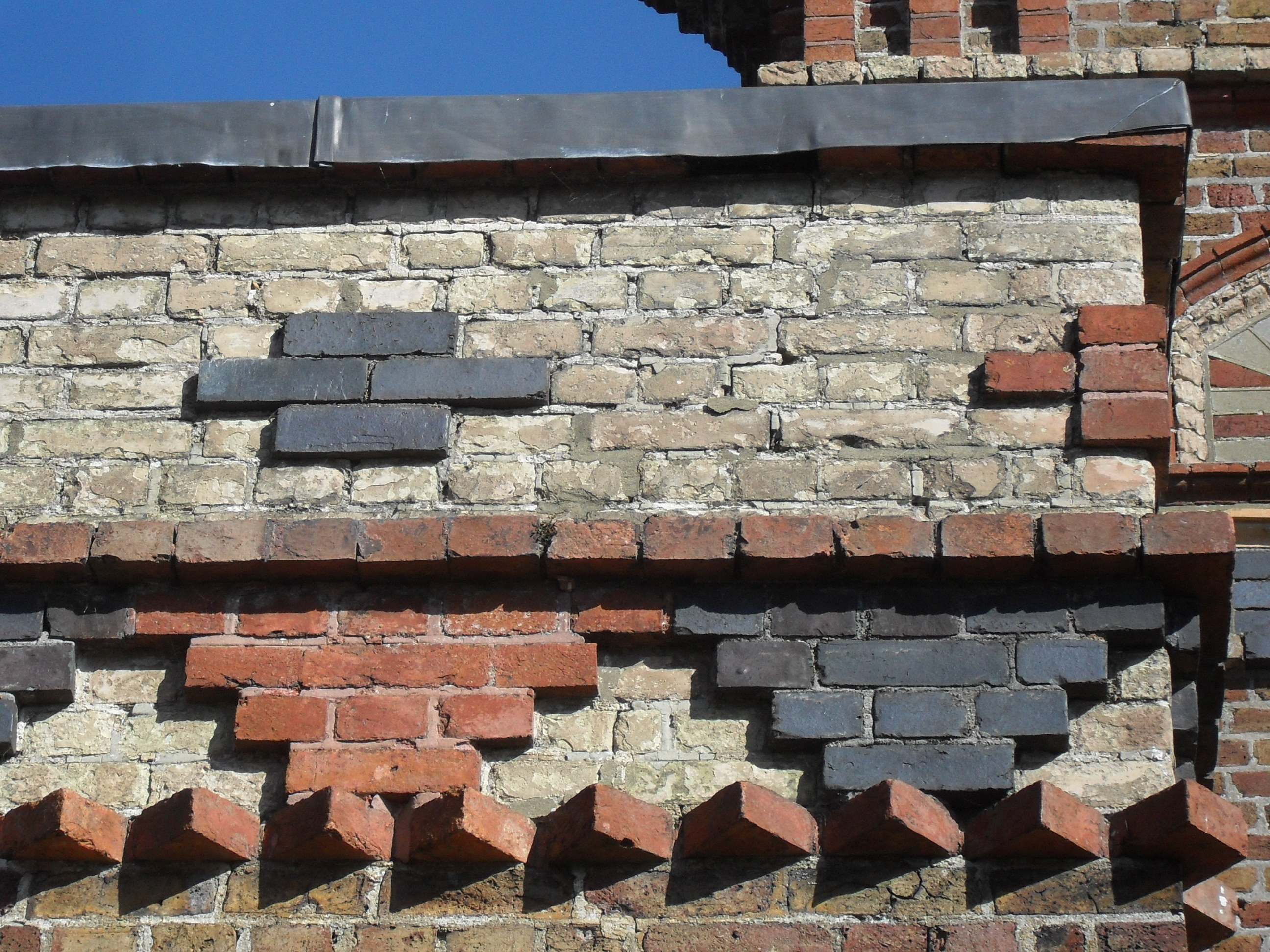 Polychrome brickwork on the exterior walls of the British Engineerium, The Droveway, West Blatchington, Hove, City of Brighton and Hove, England.